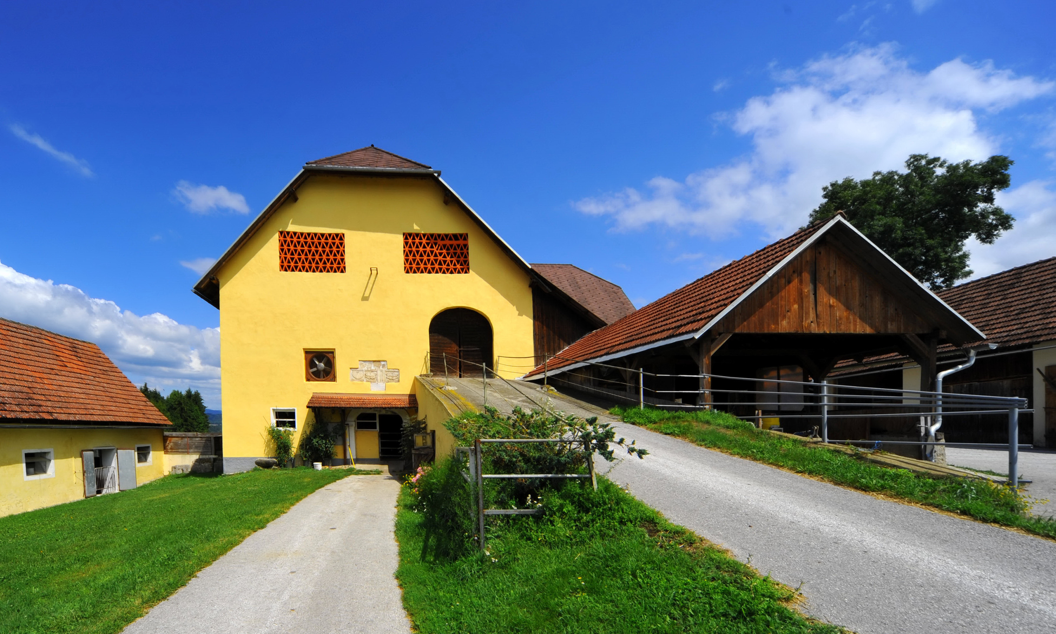 Farmstead "Toeltschach" (owner: family Toff) at Toeltschach, market town Maria Saal, district Klagenfurt Land, Carinthia / Austria / EU